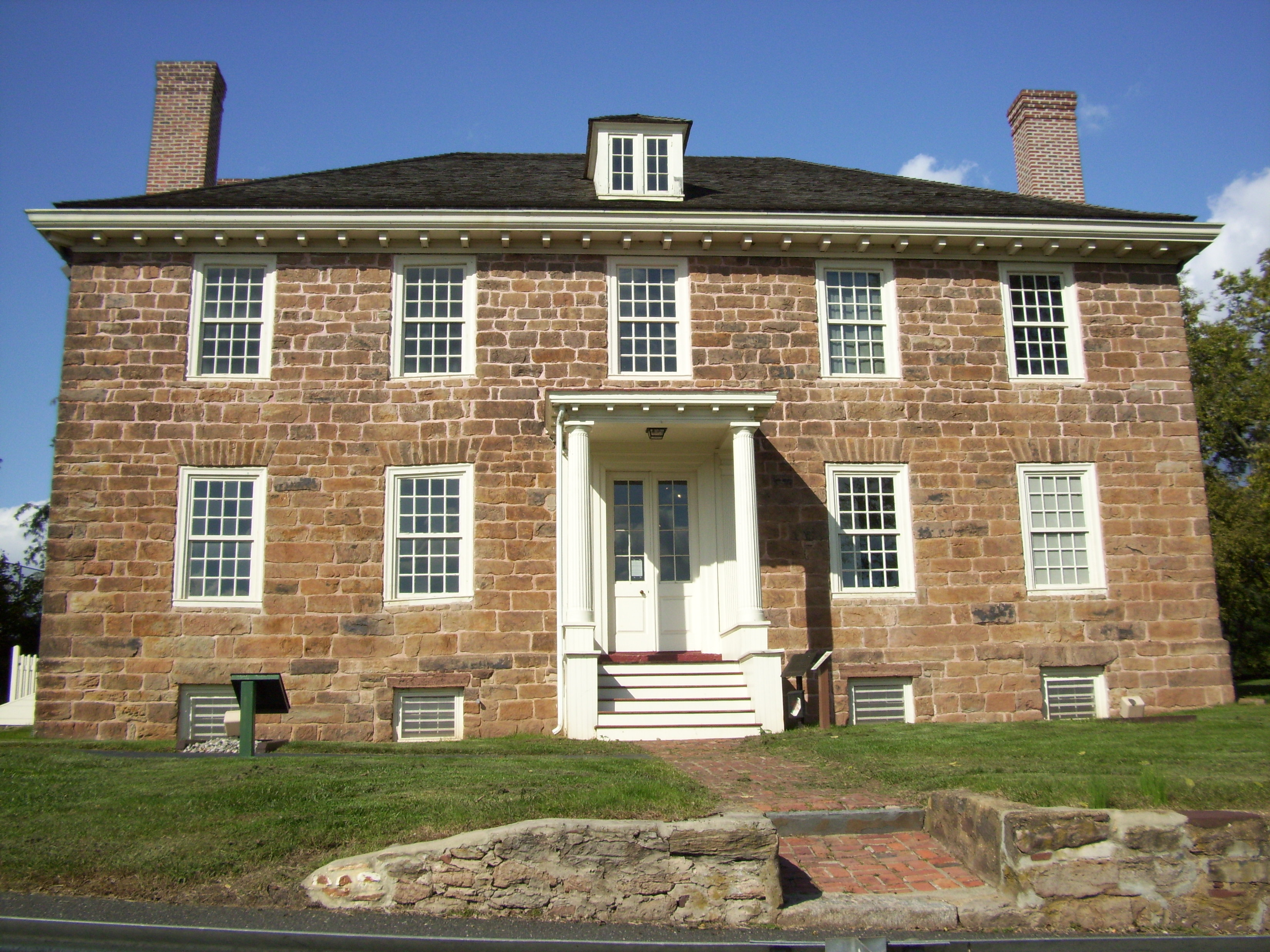 Cornelius Low House Source User:Richard Arthur Norton